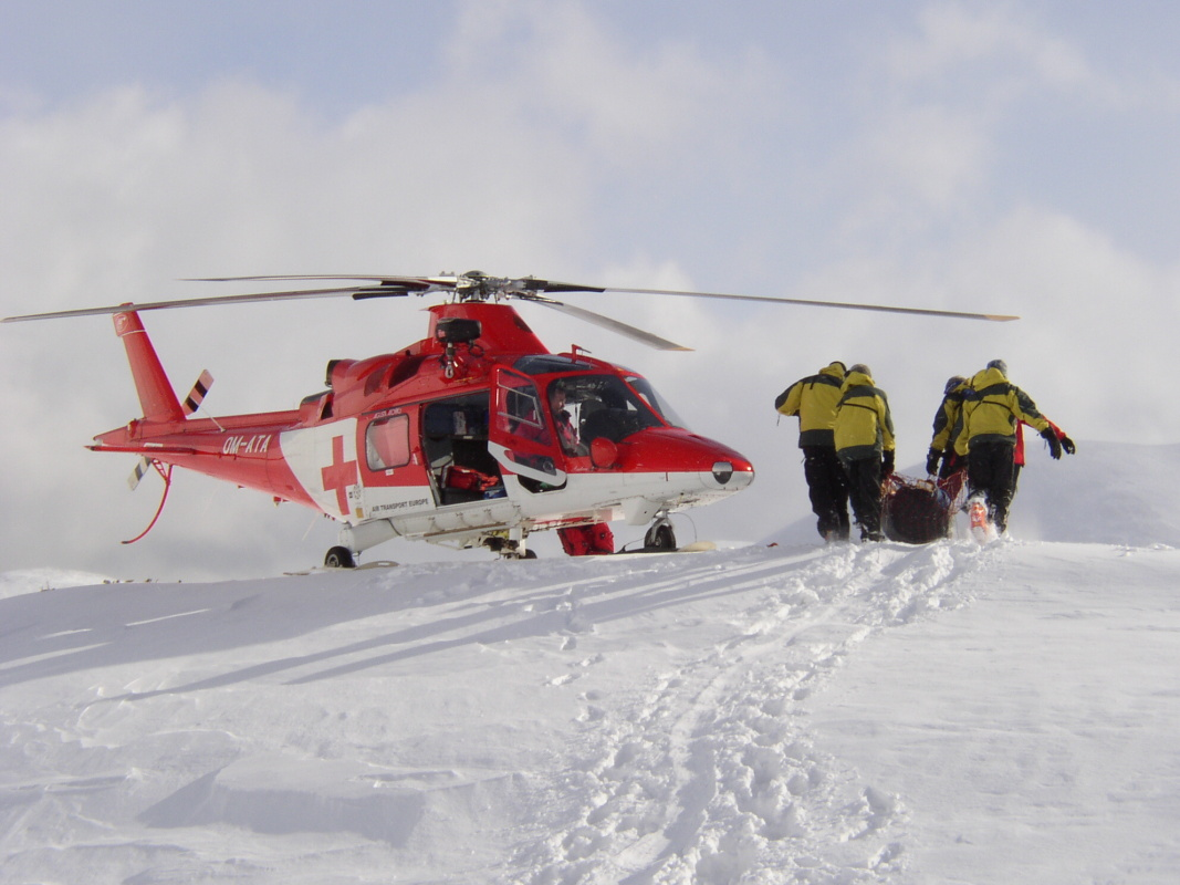 Agusta A109K2 of Air - Transport Europe performing a medical evacuation in the western Tatra mountains in SlovakiaSlovenčina: Záchranná akcia Vrtuľníkovej záchrannej zdravotnej služby v Západných Tatrách